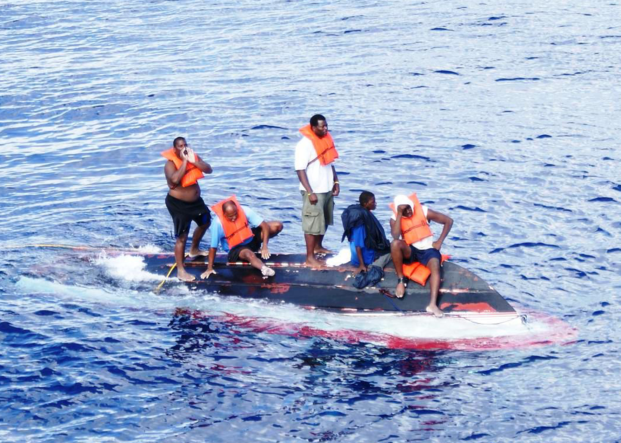 ATLANTIC OCEAN (AUG. 11, 2009) Five stranded Bahamian nationals were spotted and rescued by crewmembers of the Ohio-class, ballistic-missile submarine USS Rhode Island (SSBN 740) (not pictured). (U.S. Navy photo/Released)